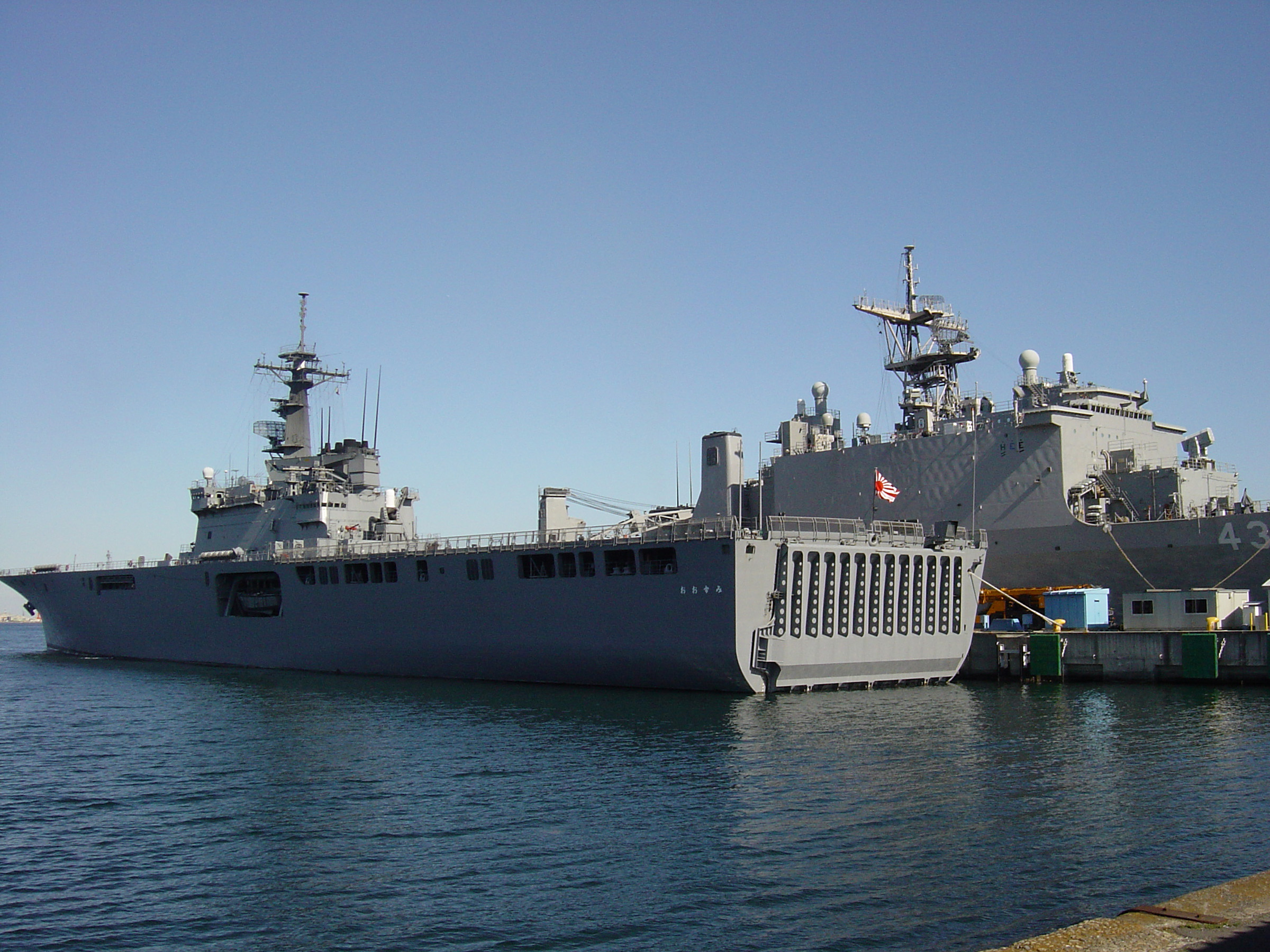 060205-N-9631S-001 - YOKOSUKA, Japan USS Fort McHenry (LSD 43) and Japanese Defense Ship (JDS) Ohsumi (LST-4001) arrive at Fleet Activities Yokosuka, Japan to conduct a bilateral transport exercise Feb. 5-8, to enhance the maritime transport proficiency and interoperability of the U.S. Navy and Japan Maritime Self Defense Force in support of humanitarian relief missions. The first of its class in the Japanese Transportation Force, Ohsumi is a 8,900 ton landing ship transport (LST). USS Fort McHenry is a dock landing ship forward deployed to Sasebo, Japan as part of the Forward Deployed Amphibious Ready Group. Task Force 76 is the Navy's only forward-deployed amphibious force and is headquartered at White Beach Naval Facility, Okinawa, Japan, with an operating detachment in Sasebo, Japan. U.S. Navy (RELEASED)